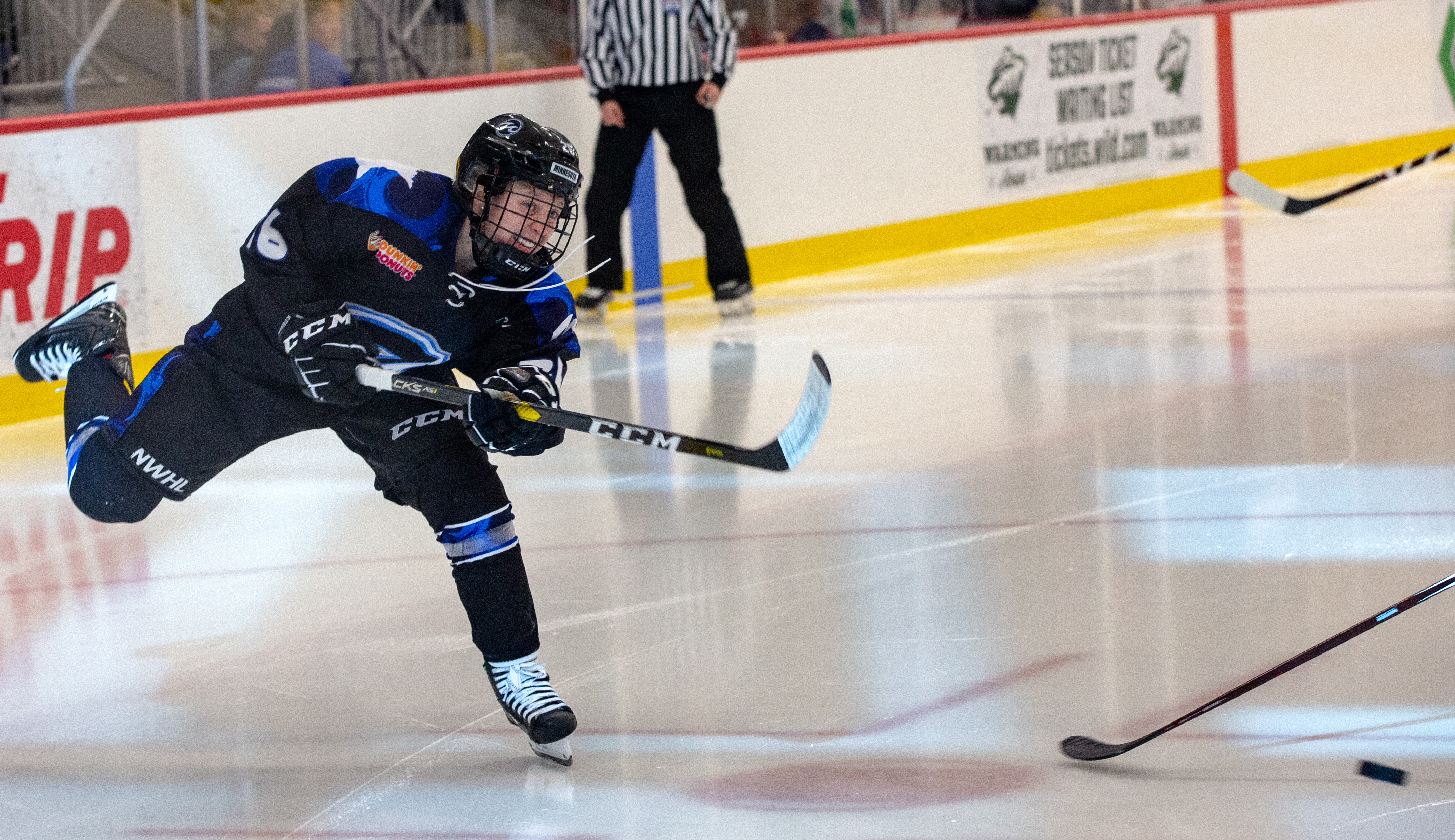 Minnesota Whitecaps Kendall Coyne Schofield (26) takes a shot at the goal